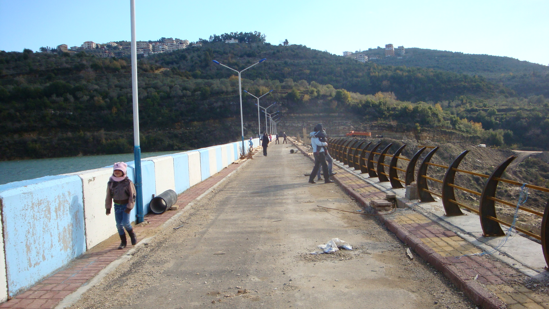 DAM ON TOP